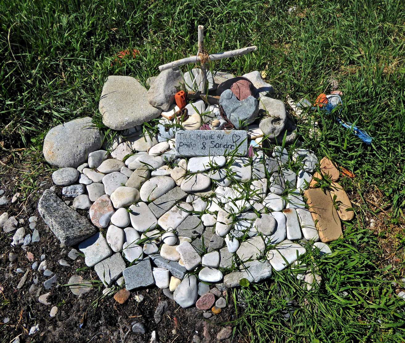 Descanso. "In memory of Philip & Sandra".